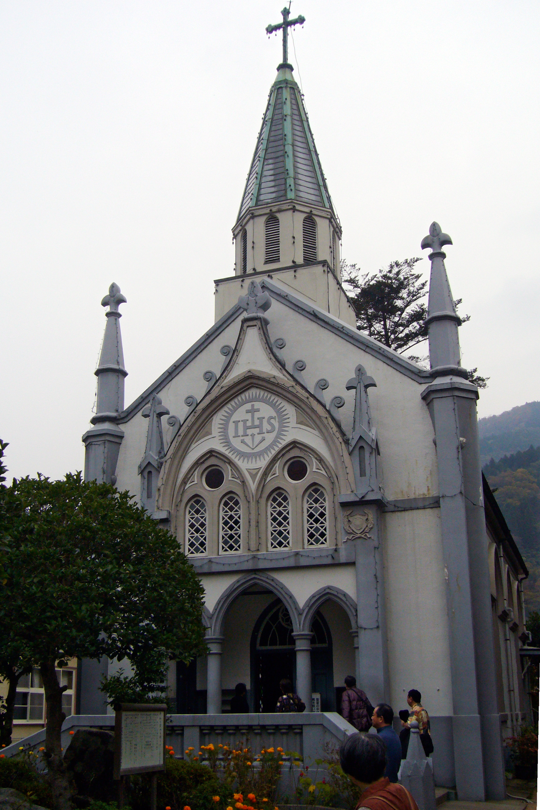 Tsuwano Catholic_Church, Tsuwano, Shimane precture, Japan